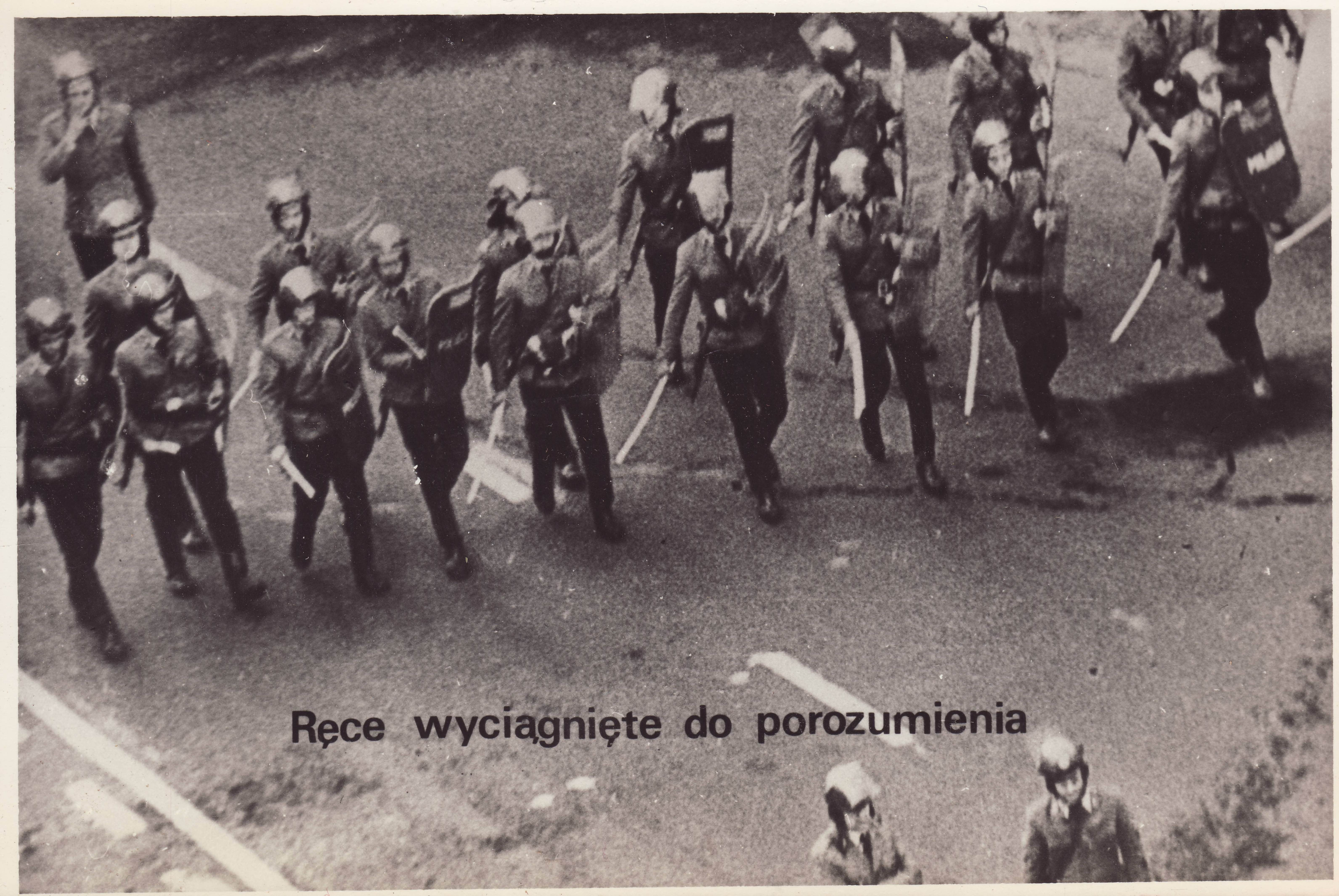 Set of photographs mostly documenting street demonstrations and police actions in Poland during the martial law of 1981-1983.